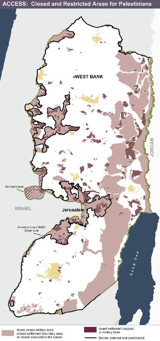 Piece of File:Westbankjan06.jpg which is a detailed map of Israeli settlements on the West Bank, January 2006. Produced by the United Nations Office for the Coordination of Humanitarian Affairs - public UN source. Map Centre